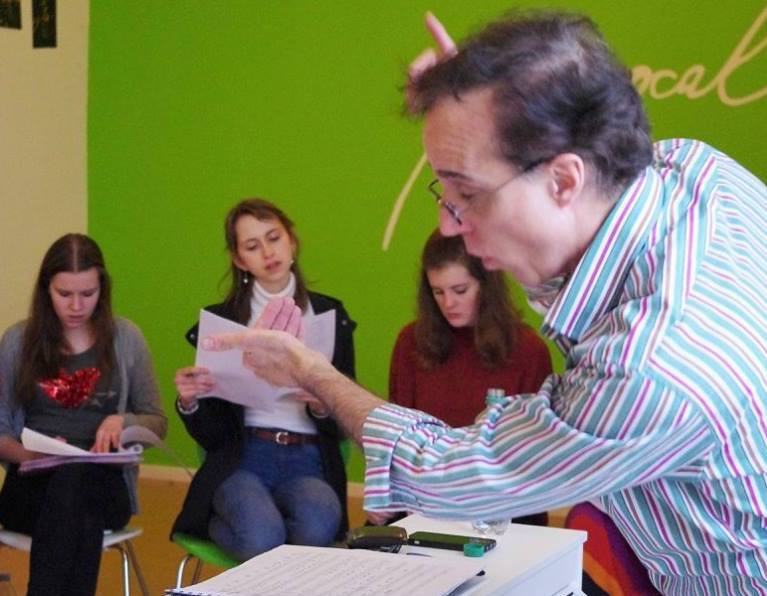 Jack Cooper, February 14, 2016 At B Vocal Studios in Berlin, Germany preparing for recording session with Young Voices of Brandenburg. To be used for article Jack Cooper (musician).